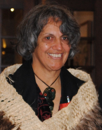 Robyn Bargh, after her investiture as CNZM, for services to the Māori language and publishing, at Government House, Wellington, on 3 May 2012.